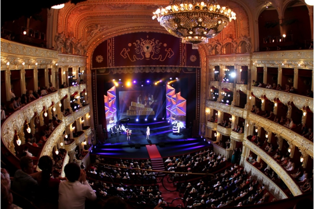 Odessa International Film Festival 2012/ Opening ceremony